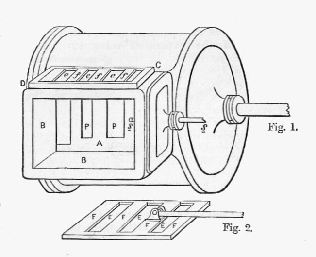 Expansion valve (Steam and the Steam Engine, Evers).jpg